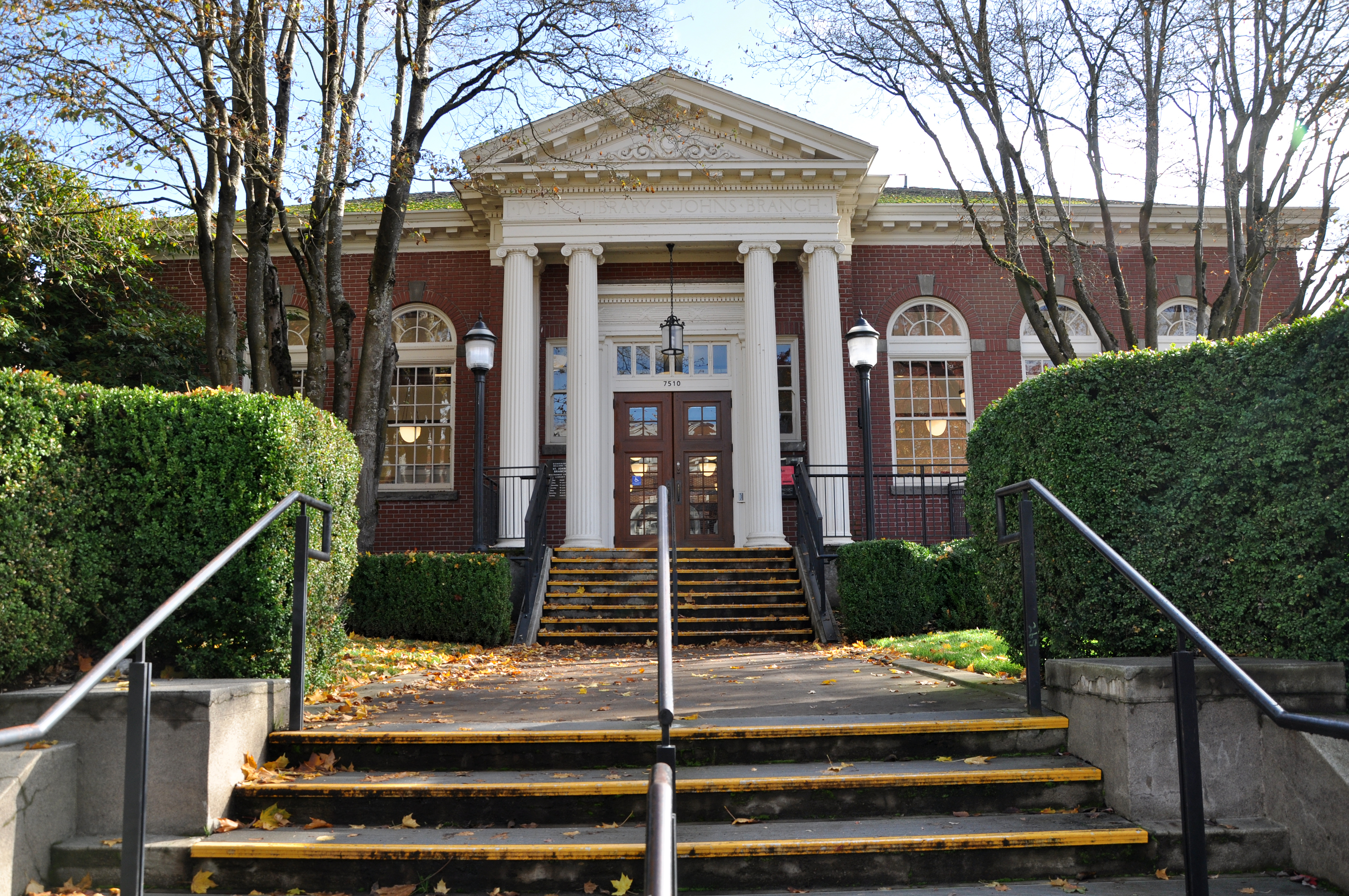 St. Johns Library, a branch of the Multnomah County Library, in Portland in the U.S. state of Oregon